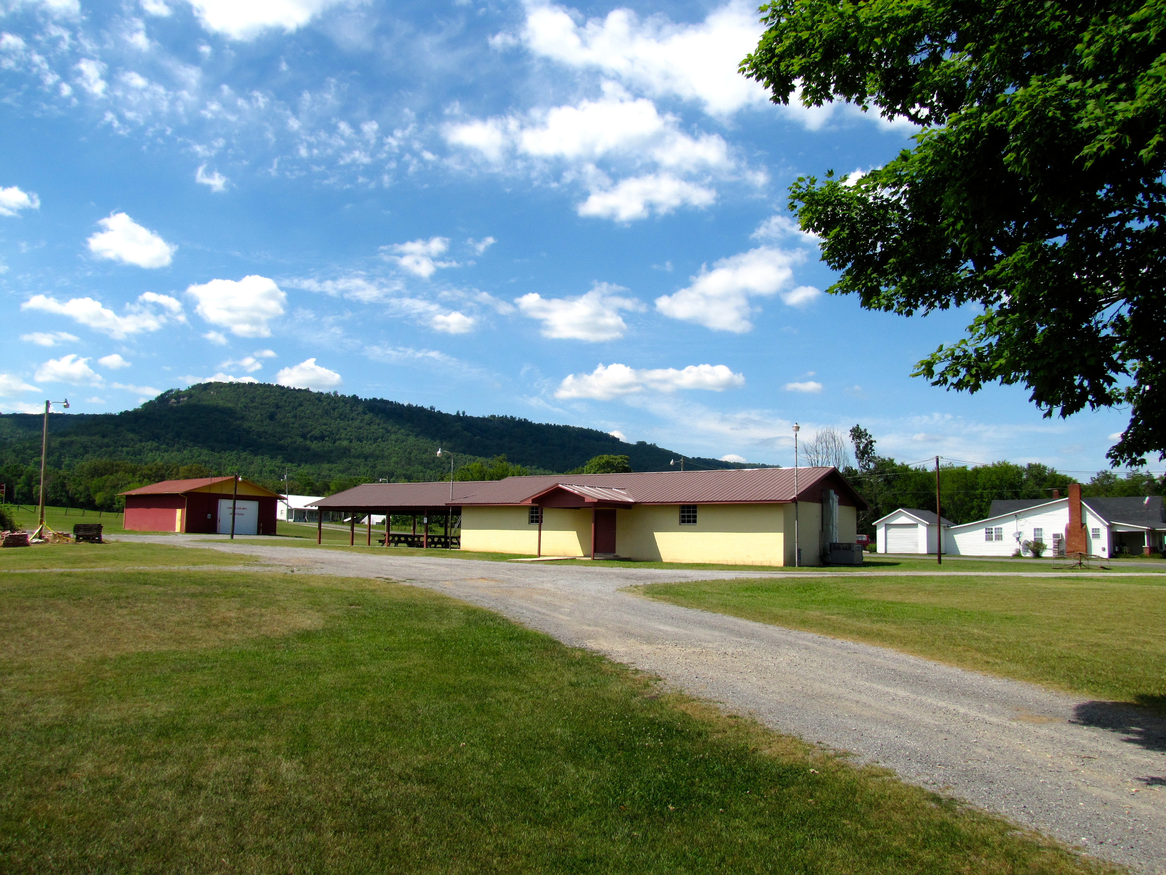 Lusk Community Center in the Lusk area of Bledsoe County, Tennessee, United States, looking north from the intersection of Old Highway 28 and Lusk Loop Road.